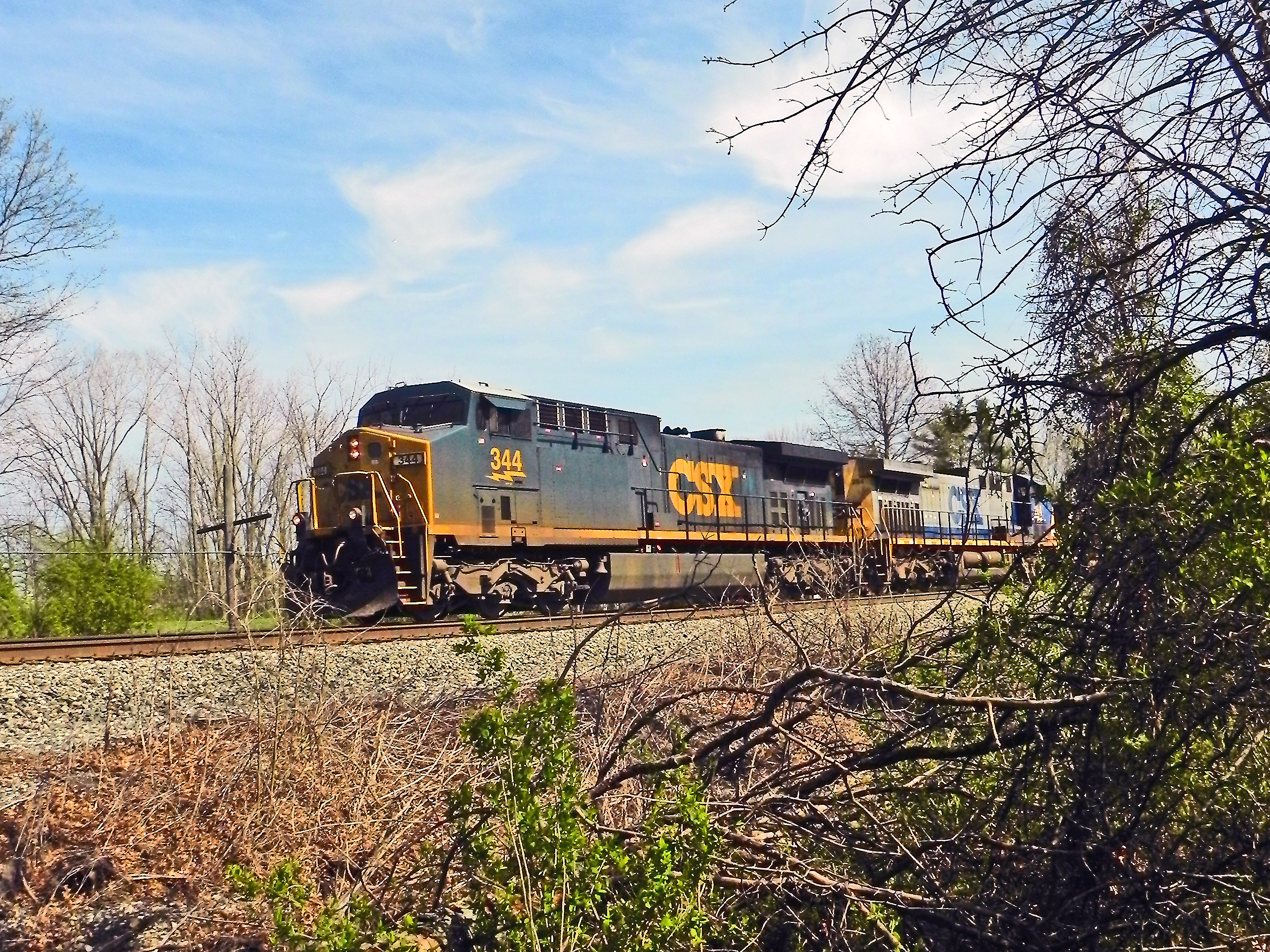 A CSX Locomotive pulls a train north on the Columbus Subdivision through milepost 14.0 in Powell, Ohio.